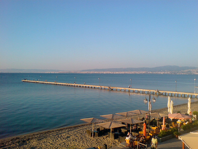 View of Thessaloniki form Peraia's beachfront.